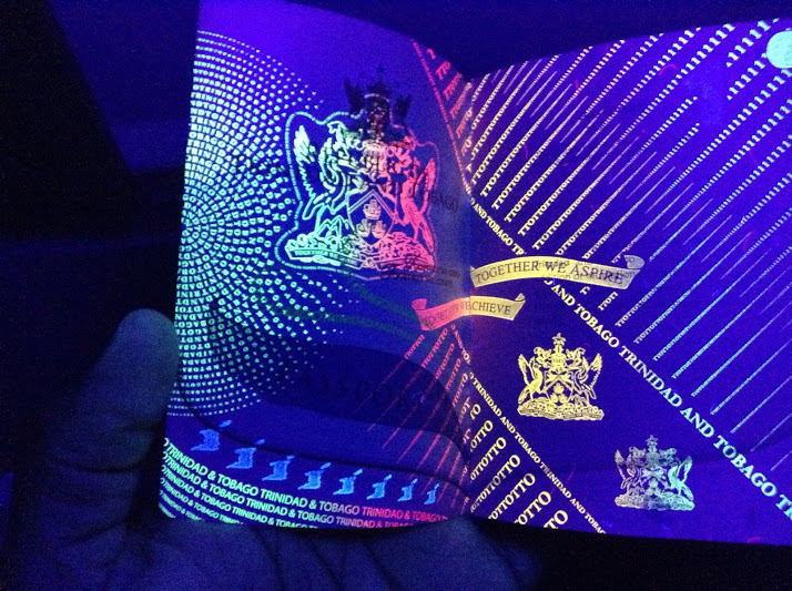 These are some of the UV light security designs which are embedded into the passport.